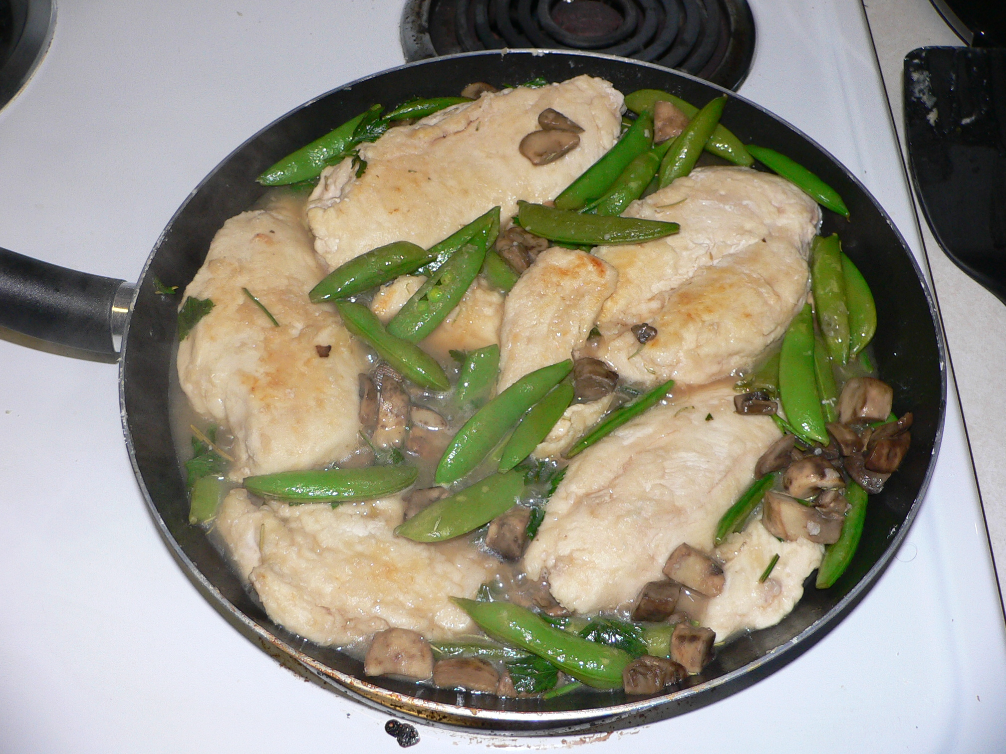 Myself cooking chicken marsala with mushrooms and sugar snap peas